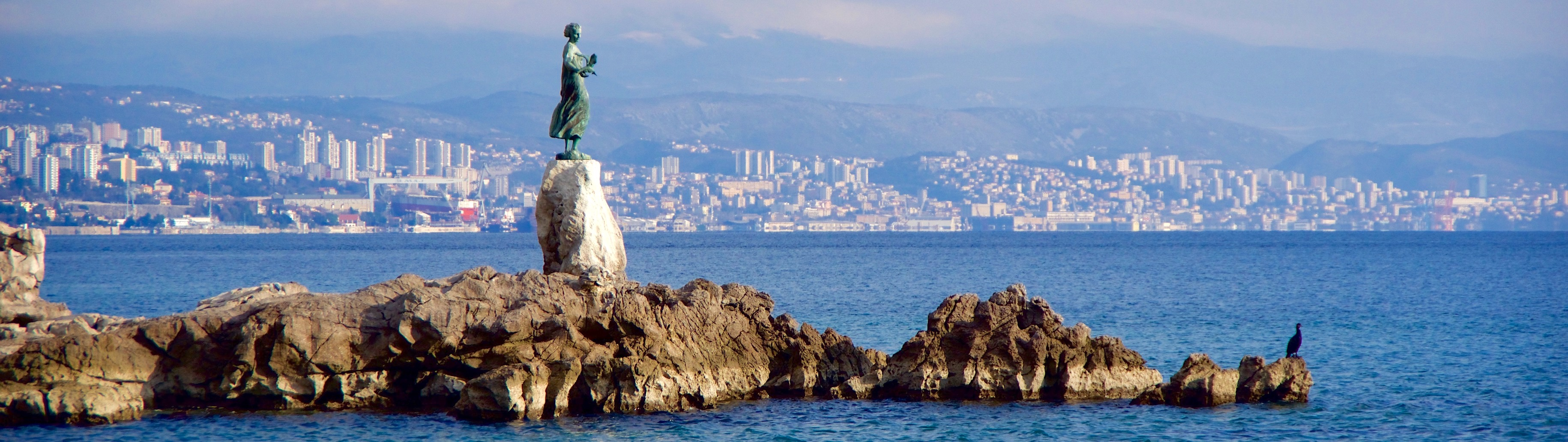 View of Rijeka from Opatija